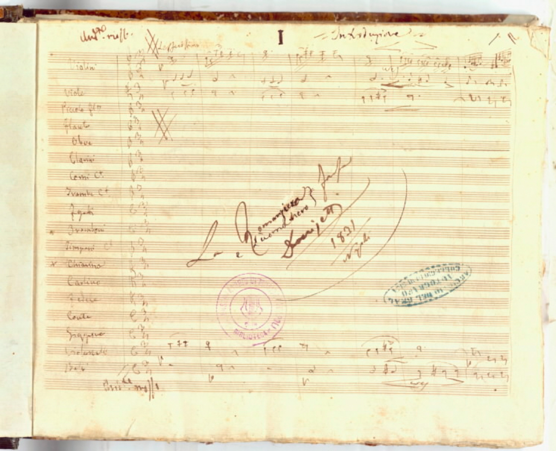 Autograph title page of the manuscript score of Gaetano Donizetti's opera La romanziera e l'uomo nero, first performed at the Teatro del Fondo in Naples on 18 June 1831